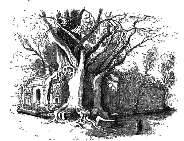 Fig Tree on the Ruins of Pollanarrua